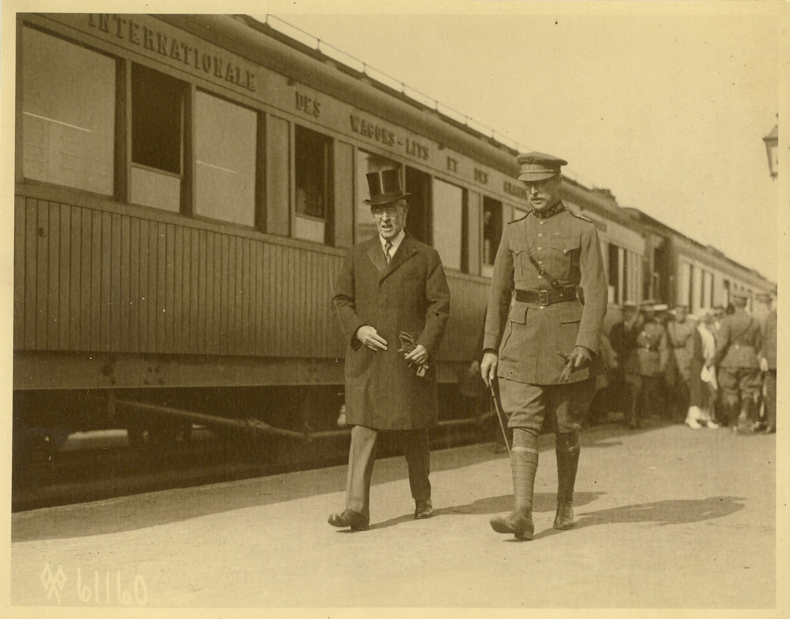 Local Accession Number: 1801 Description: President Wilson and King Albert walk alongside the train in Adinkerke. Photographer: U.S. Signal Corps Source: Unknown Size: 7x9 Medium: Print, Sepia Date: 06-18-1919